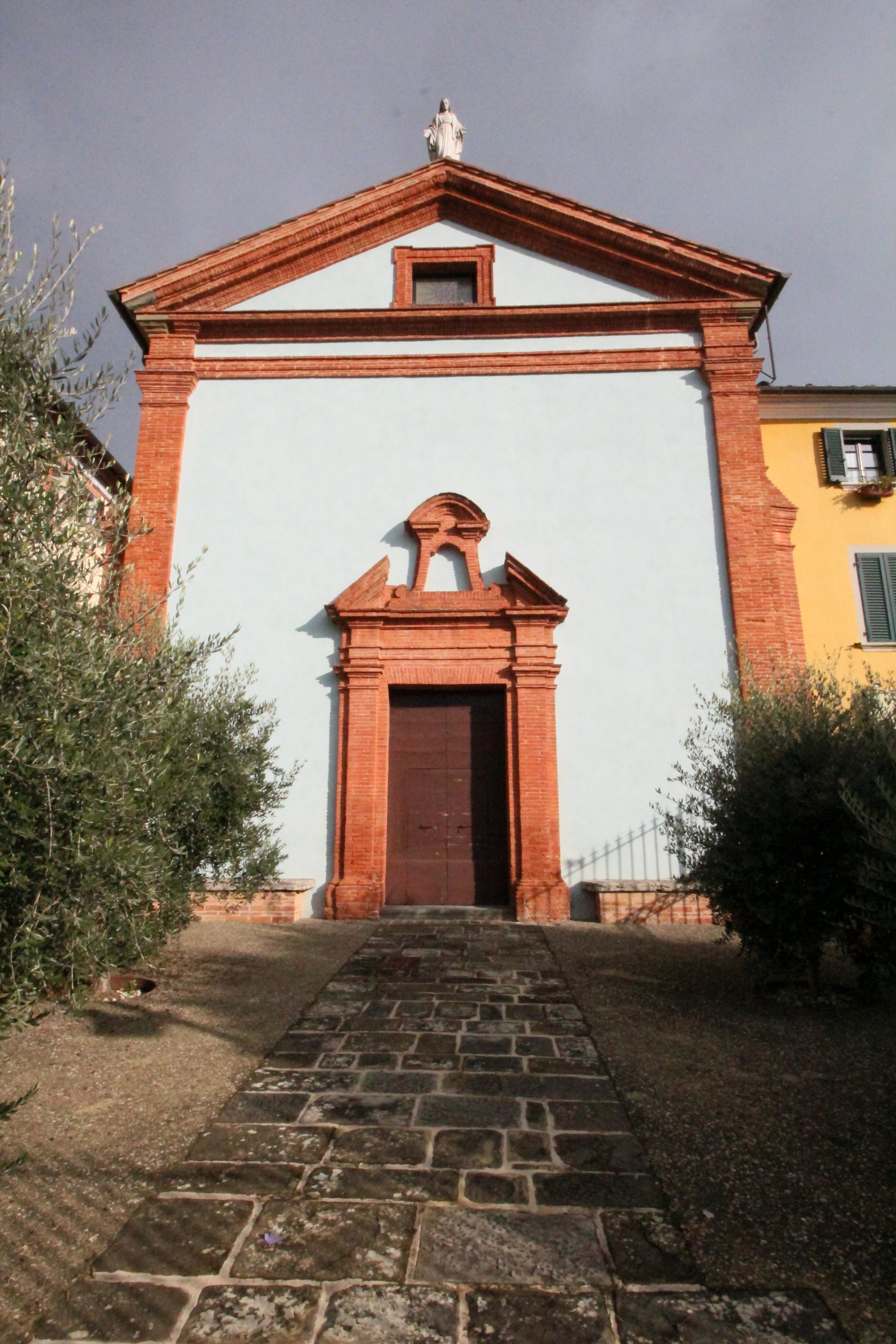 Church Madonna delle Nevi, Sinalunga, Valdichiana, Province of Siena, Tuscany, Italy